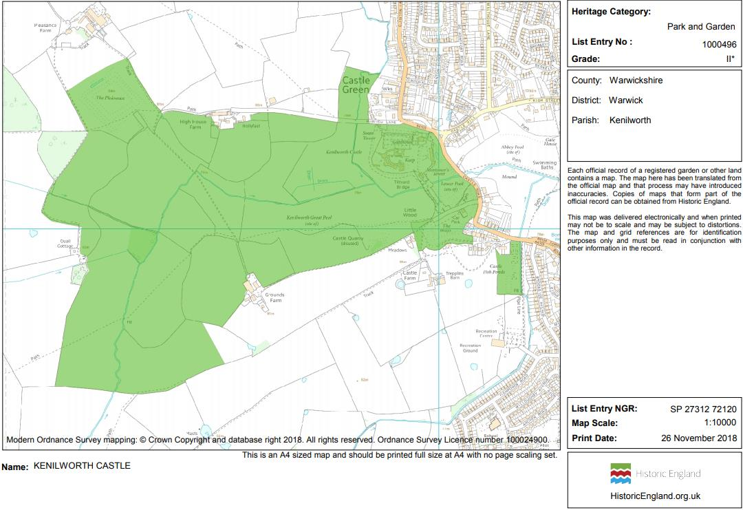 Територіальна межа замку та його суміжних територій